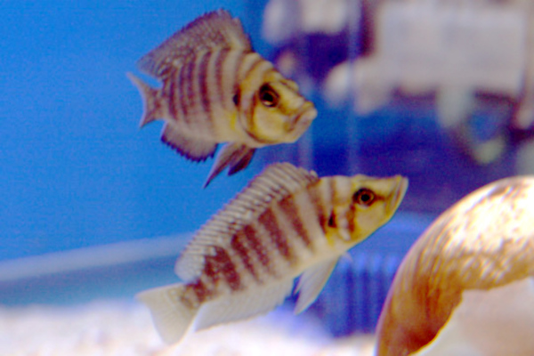 Two Altolamprologus compressiceps cichlids at the 20th Pramong Nomklao fish show event at the Future Park Rangsit, Thailand, in July 2008. Picture taken by myself.